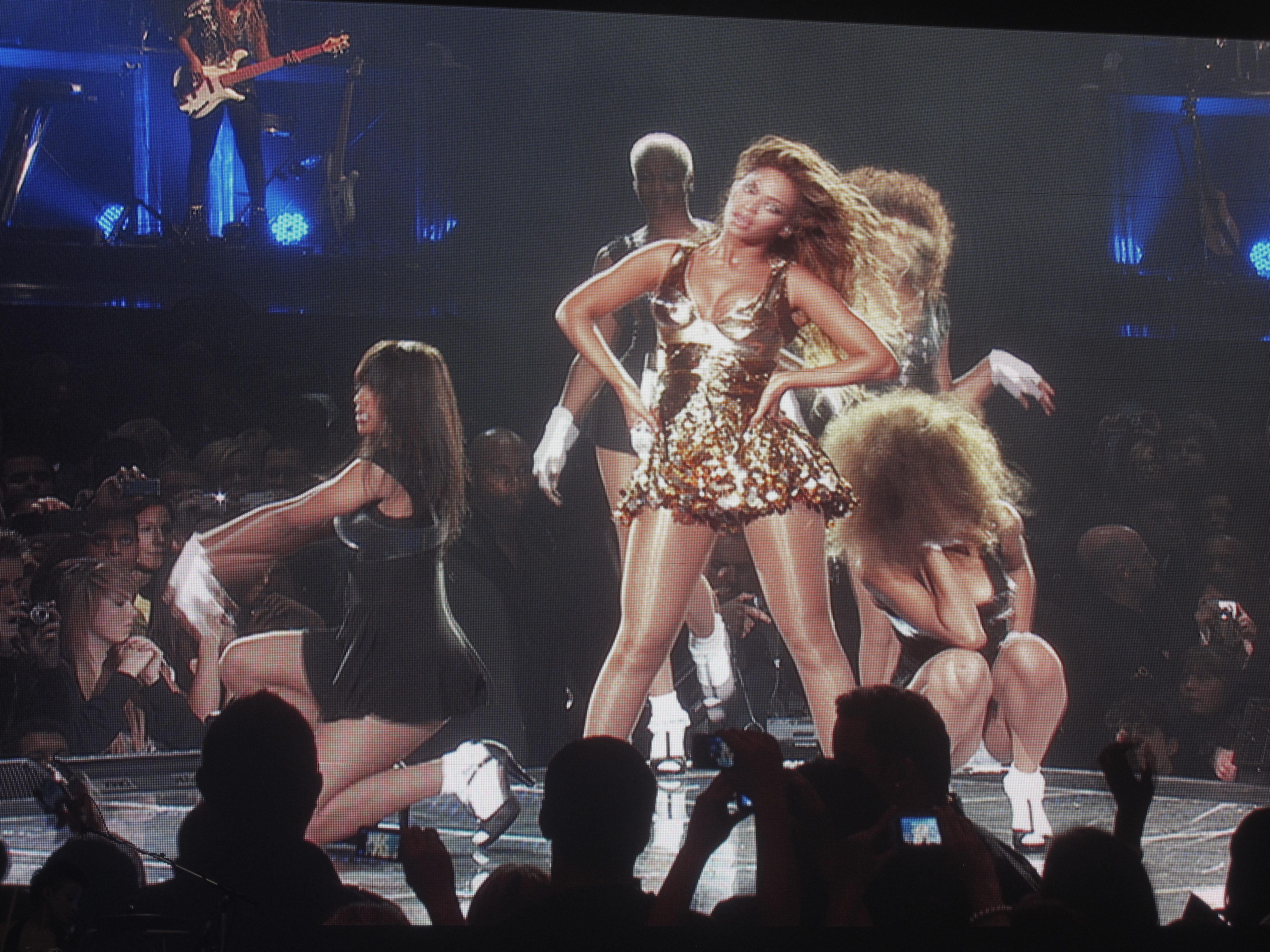 Beyoncé performing on The O2 in London.